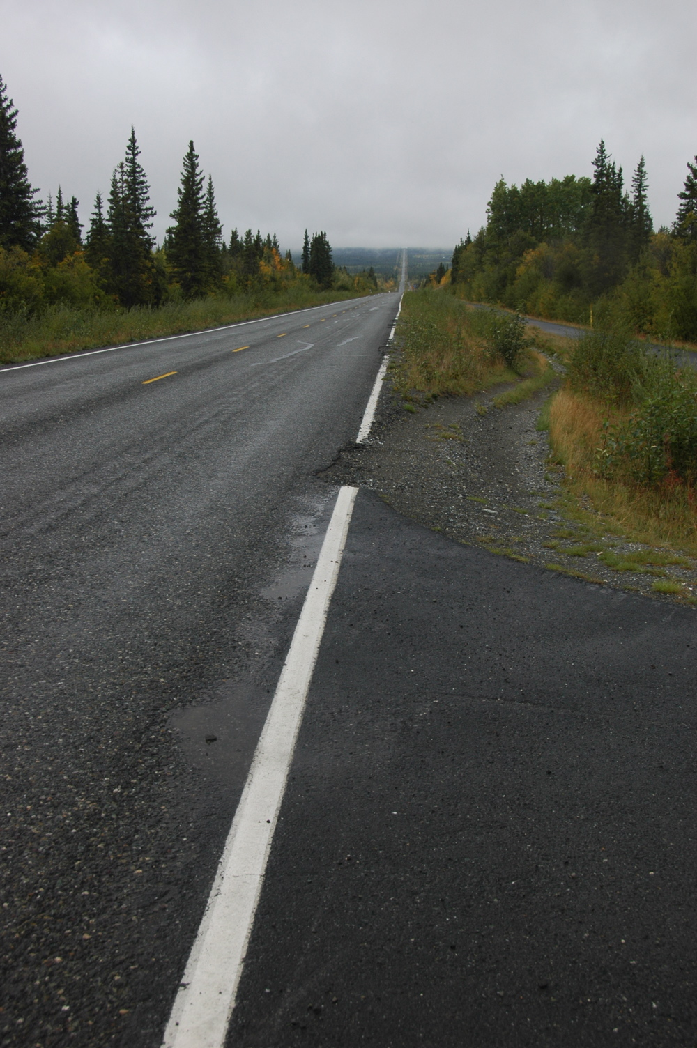 The Edgerton Highway south of Copper Center, Alaska at approximately milepost 4.